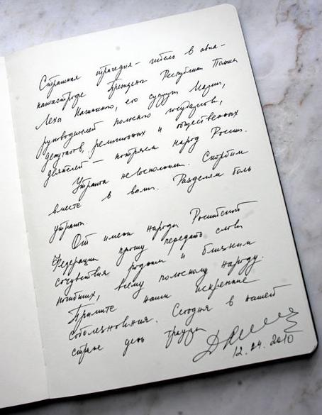 Inscription of Dmitry Medvedev in book of condolence, Polish embassy in Moscow, April 12th 2010, wording: see below